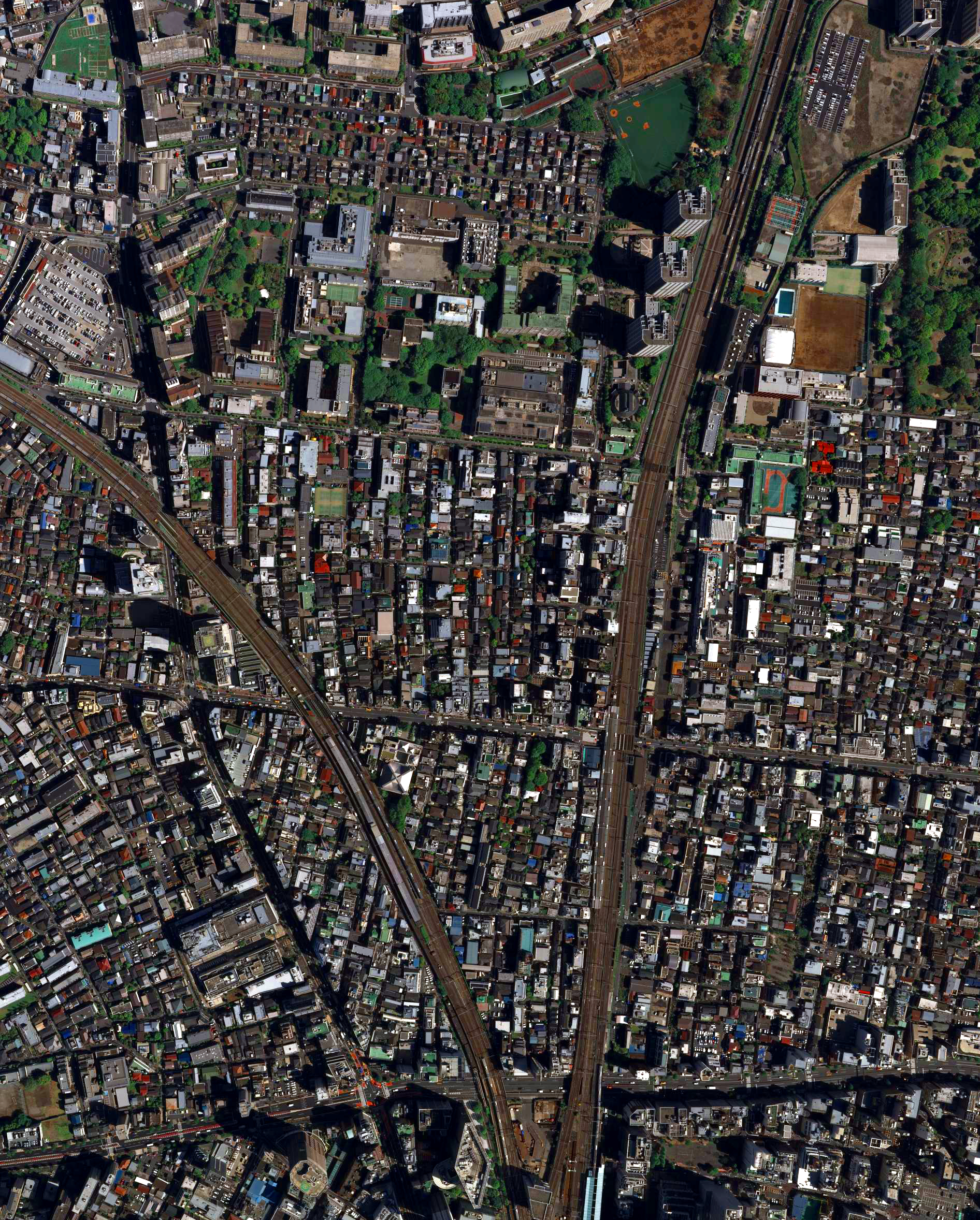 The Geographical Survey Institute took the aerial photograph in Shinjuku Ward, Tōkyō Metropolis on April 27, 2009.